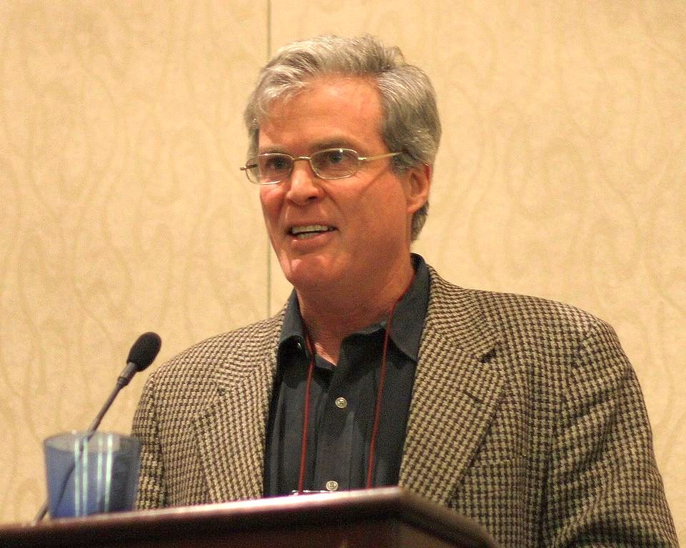 American science journalist John Horgan delivering a 10-year retrospective on his book The End of Science, at the 2007 History of Science Society meeting in Washington, D.C.